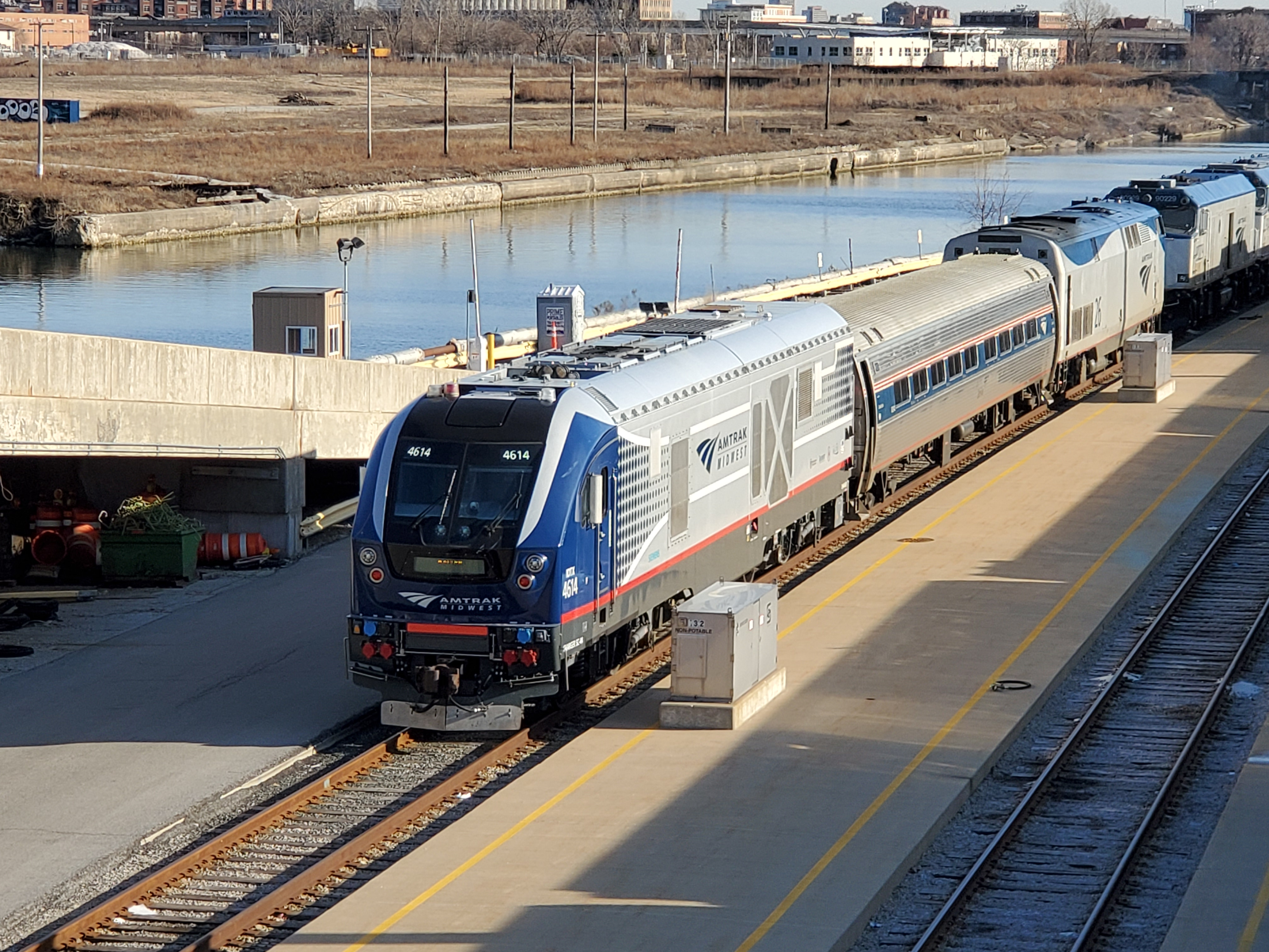 Illinois Department of Transportation 4614 (Siemens SC-44) in Chicago, Illinois